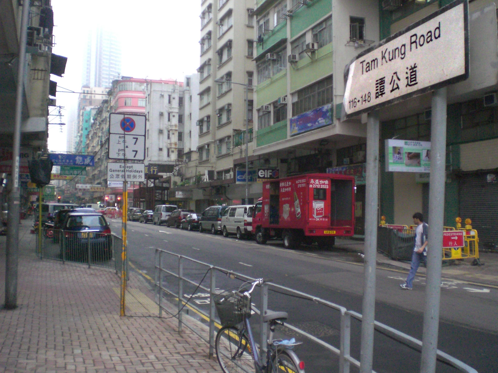 九龍城 譚公道